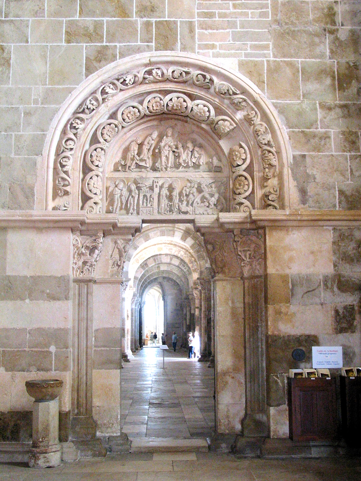 Vézelay (Yonne - France), Basilica of Saint Magdalene – Southern tympan of the Saint Magdalene narthex (1140-1150).